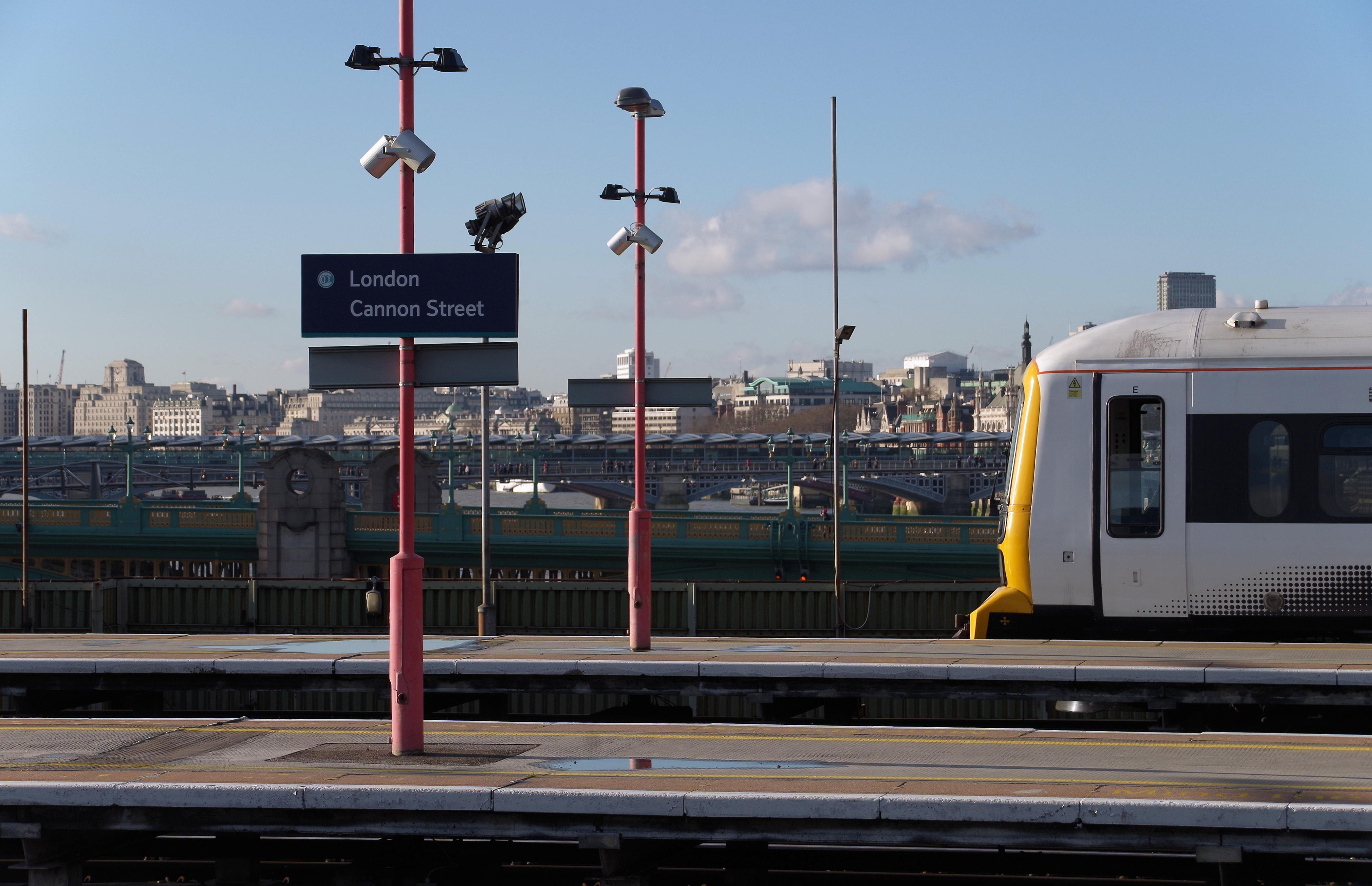 Southeastern class 465 "Networker" EMU 465012 stands at London Cannon Street station, operating a Charing Cross to Cannon Street shuttle service due to engineering works at Charing Cross.